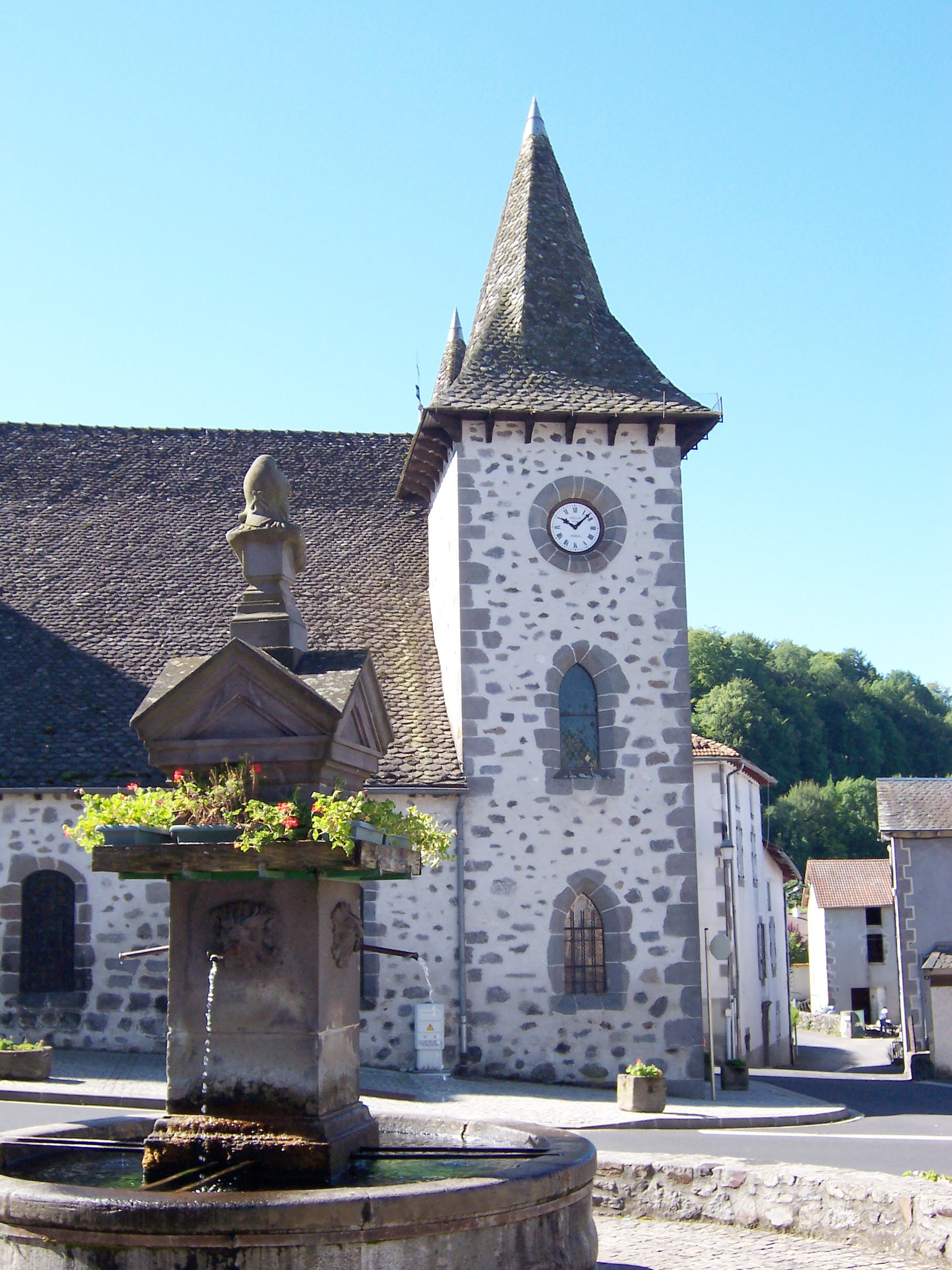 church and fountain in the center of the village of Jussac (Cantal)